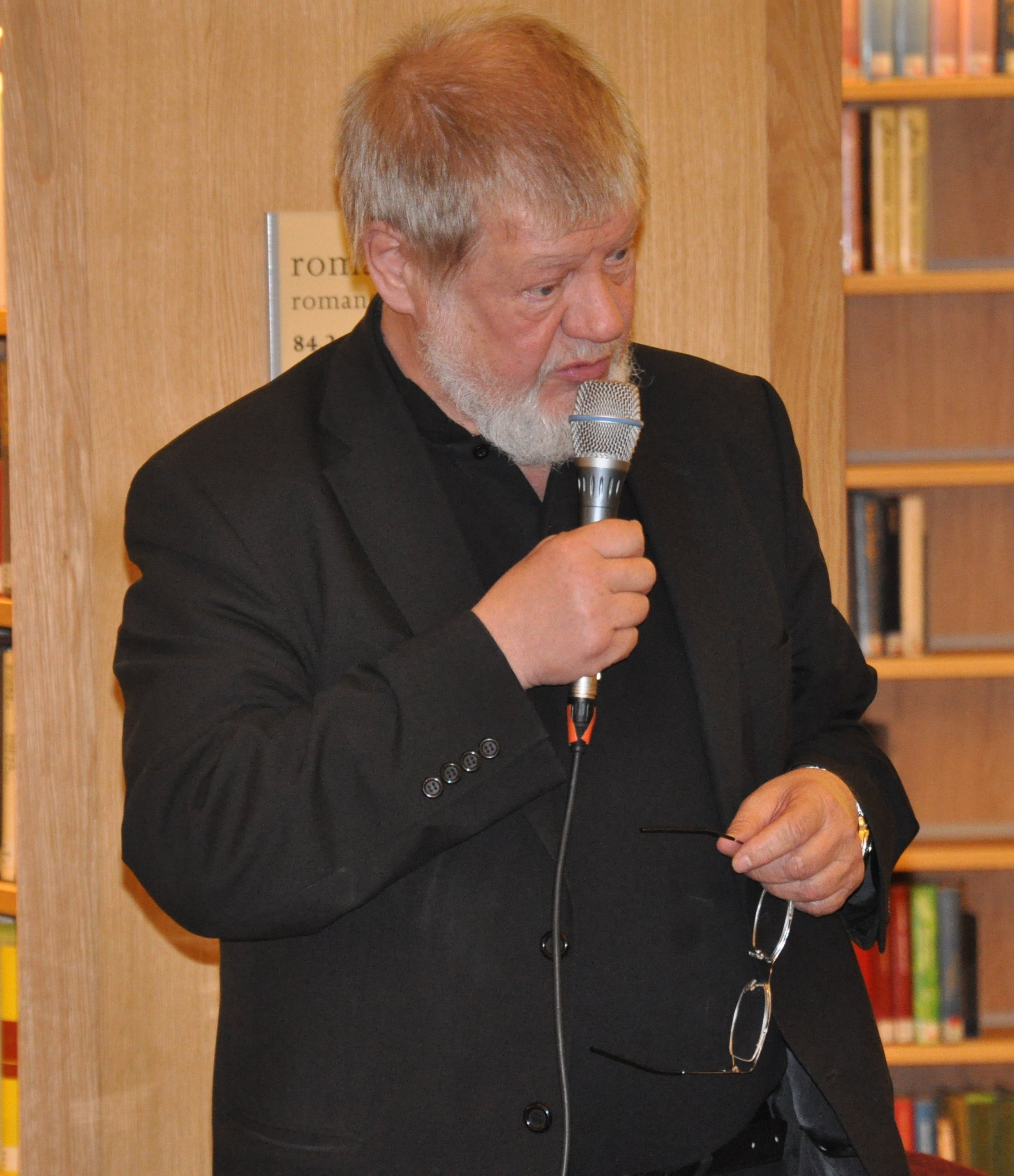 Finnish writer Torsti Lehtinen speaking at Turku Main Library.